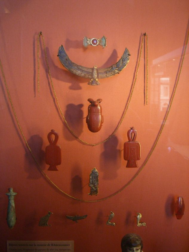 Amulets, etc.(from top): Row 3, Heart amulet; Row 4 Tjet amulets; Row 6, Papyrus stem (hieroglyph) amulet, Vulture amulet (the: Mut amulet), 2 Uraeus amulets, and a Stone(amulet).